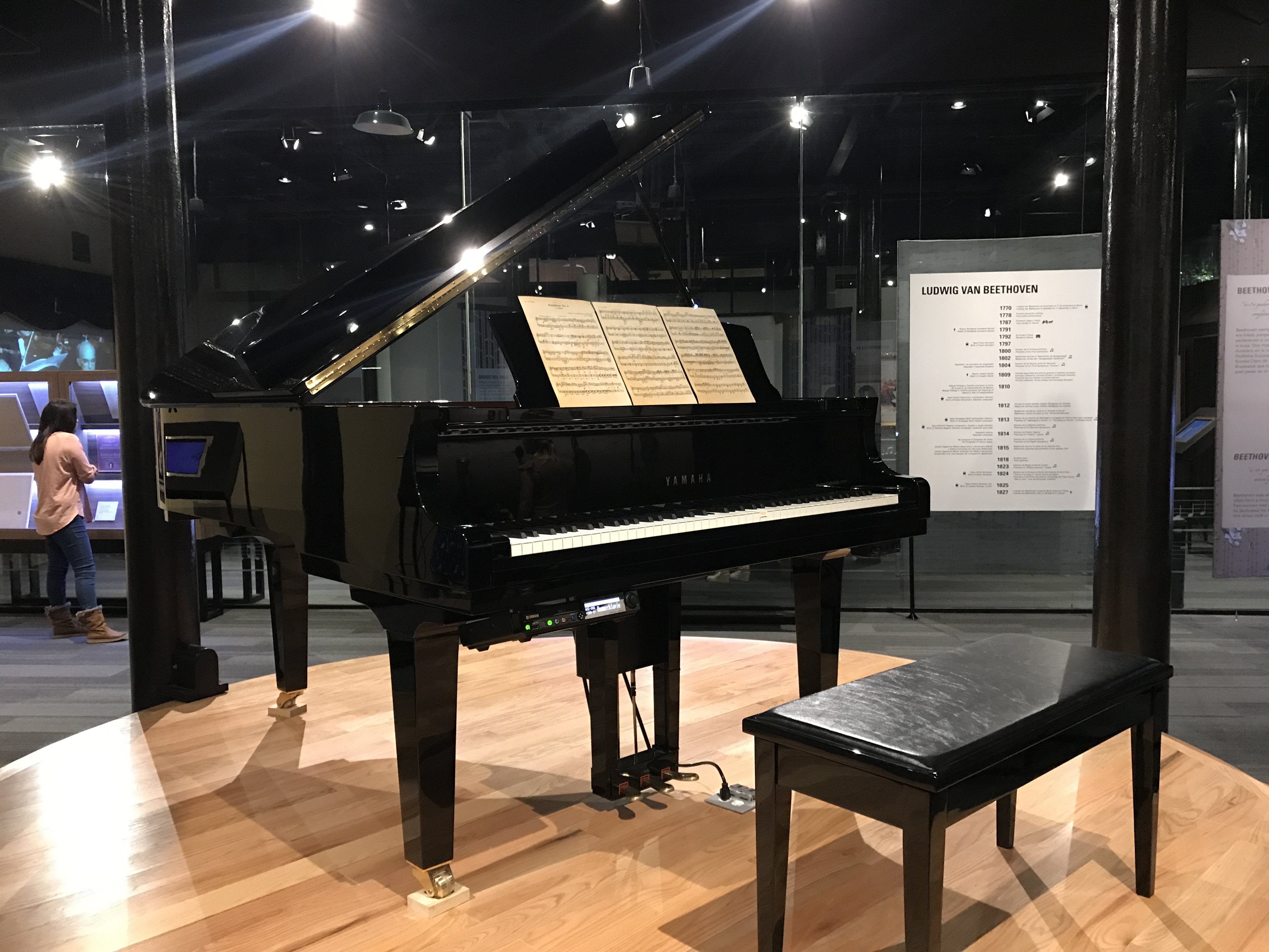 A Yamaha piano in the center of the Beethoven's room in the Vienna Music House.